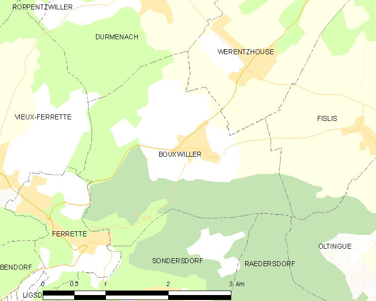 Map of French municipality